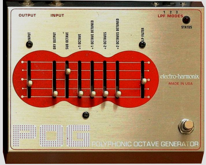 Electro-Harmonix Polyphonic Octaver Generator Octaver (sub and upper octaves + detuned upper octaves) - made popular by Jack White on 'Blue Orchid' and overused on the Stripes latest release Icky Thump. It can emulate (convincingly) a bass, a 12-string or even an organ (think Hammond B3). Replaces a Digitech Whammy WH-4, even if it's quite different as the POG 'lacks' an expression pedal - but this damn thing track chords (for ten times less the price of an Eventide Harmonizer...). Loads of fun and endless possibilities, but subtle use is recommended.